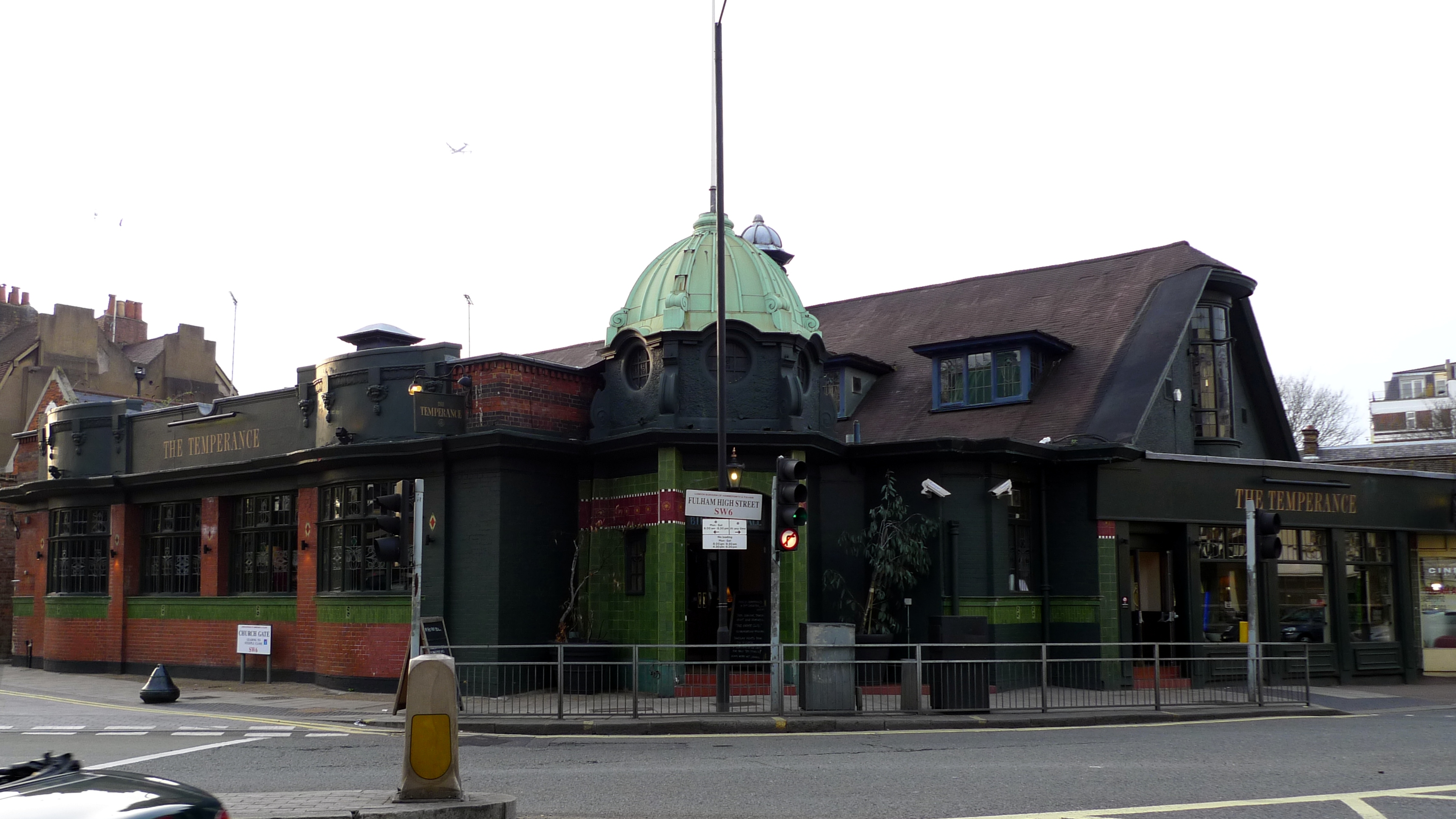 A large pub not too far from Putney Bridge. Address: 90 Fulham High Street. Former Name(s): O'Neill's; The Pharoah and Firkin. Owner: Stonegate Pub Company (website); Mitchells and Butlers [Metro Professionals] (former); Mitchells and Butlers [O'Neill's] (former); Firkin Pub Co (former). Links: Randomness Guide to London Fancyapint Beer in the Evening Beer in the Evening (O'Neill's) Qype